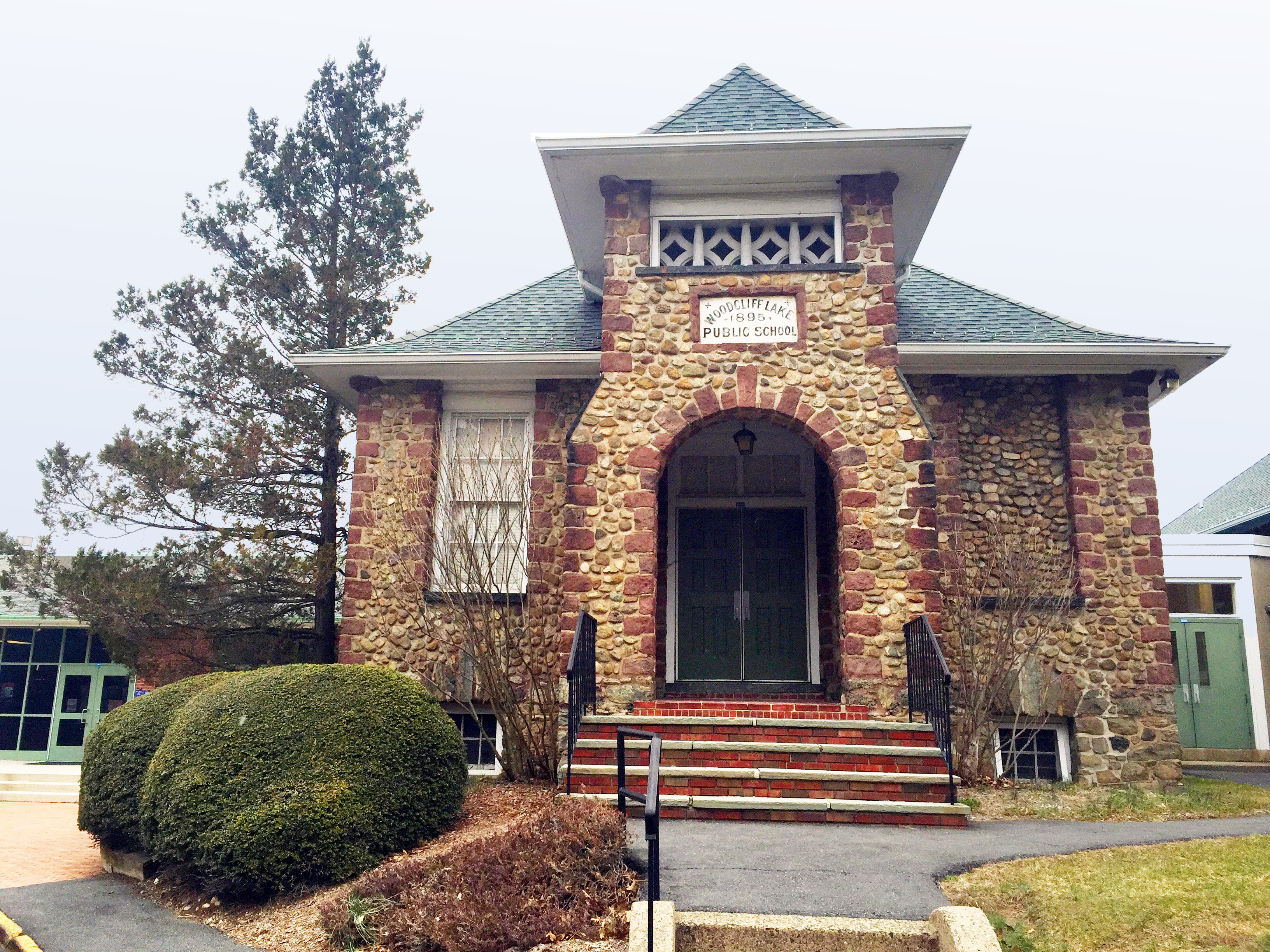 Part of the facade of the Woodcliff School, Woodcliff Lake, NJ